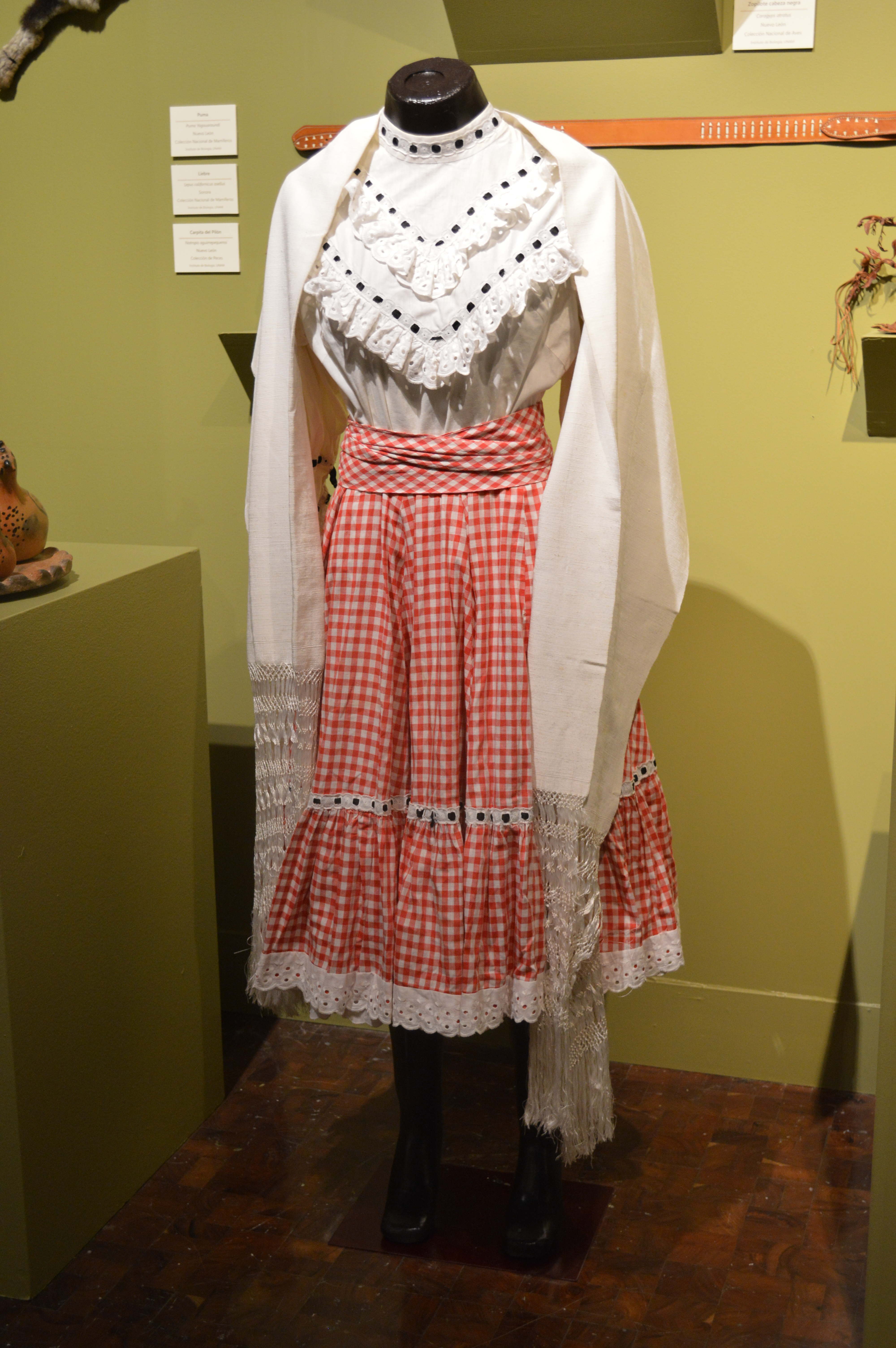 Dress to dance polka and redova from Nuevo Leon at the El Norte, su materia, su artesania at the Museo de Arte Popular in Mexico City